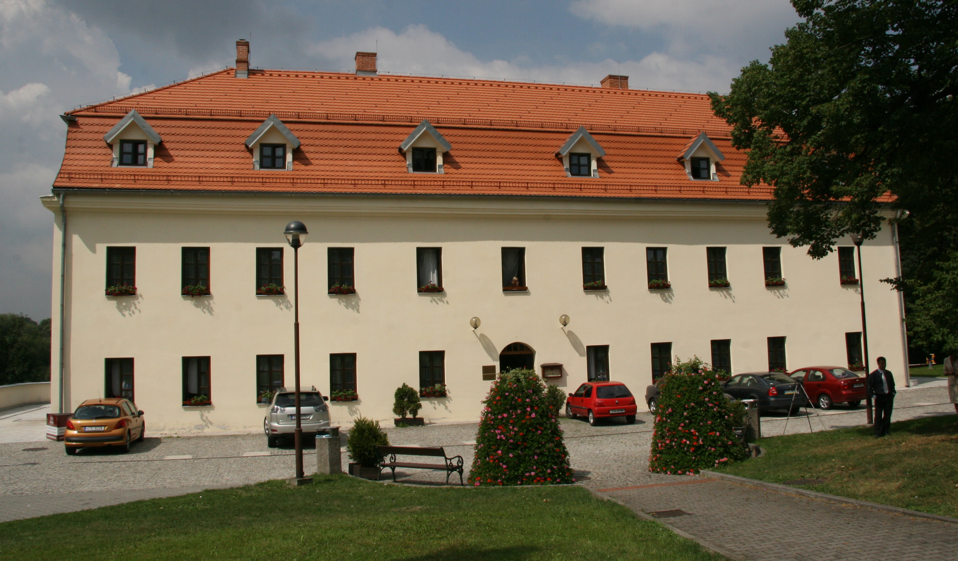 Castle in Šumbark. Havířov, Karviná District, Moravian-Silesian Region, Czech Republic